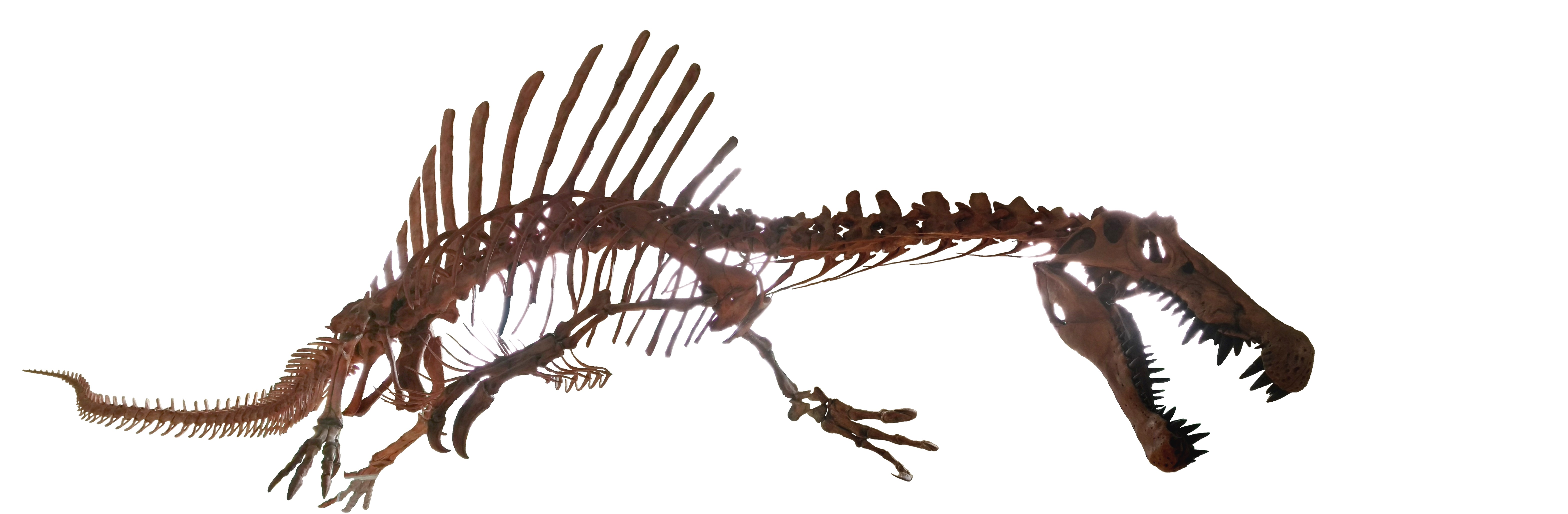 Spinosaurus reconstruction based on Ibrahim, N.; Sereno, P. C.; Dal Sasso, C.; Maganuco, S.; Fabbri, M.; Martill, D. M.; Zouhri, S.; Myhrvold, N.; Iurino, D. A. (2014). "Semiaquatic adaptations in a giant predatory dinosaur". Science 345 (6204): 1613–1616.